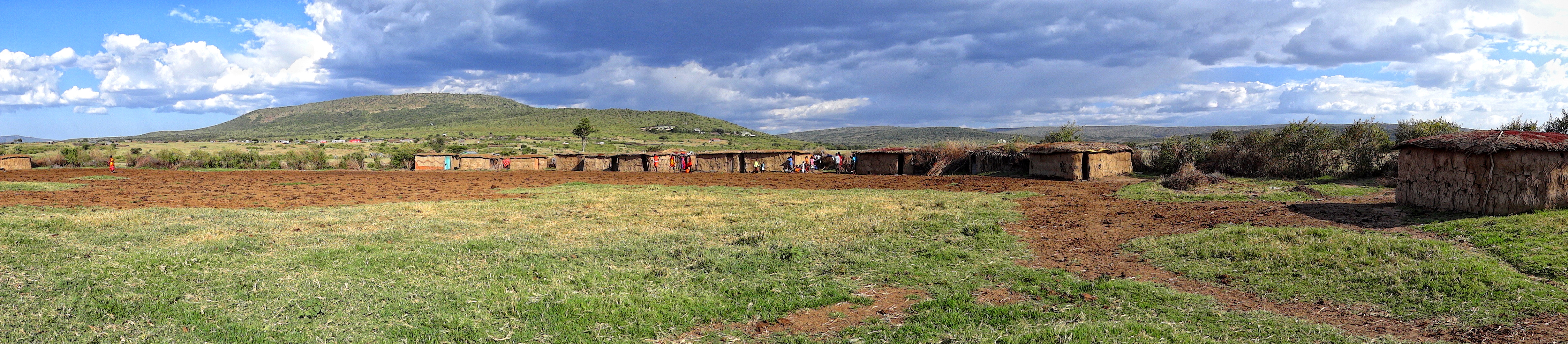 The inside of a Maasai manyatta, the living quarters of Maasai murran (warrior) (In contrast to the Maasai enkang (best be translatd as village, the living communities of murrani (warriors) are not surrounded by a fence because the warriors do neither have wives nor are they traditionally involved in herding. They protect the Maasai cattle as well as the villages of the Maasai.) located just outside the Sekenani gate of the Maasai Mara National Reserve.